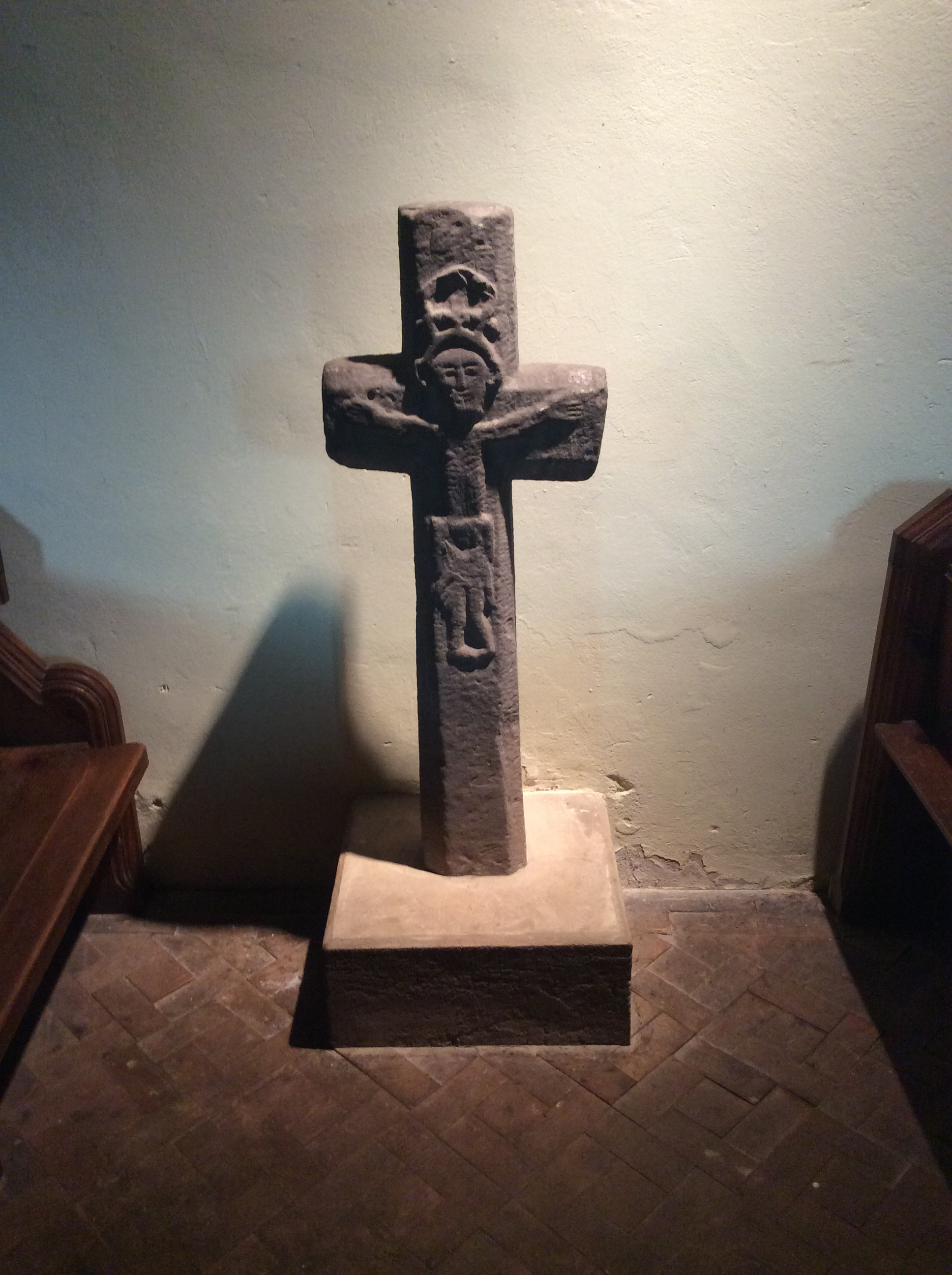 Statue of Christ, Church of St Martin, Cwmyoy